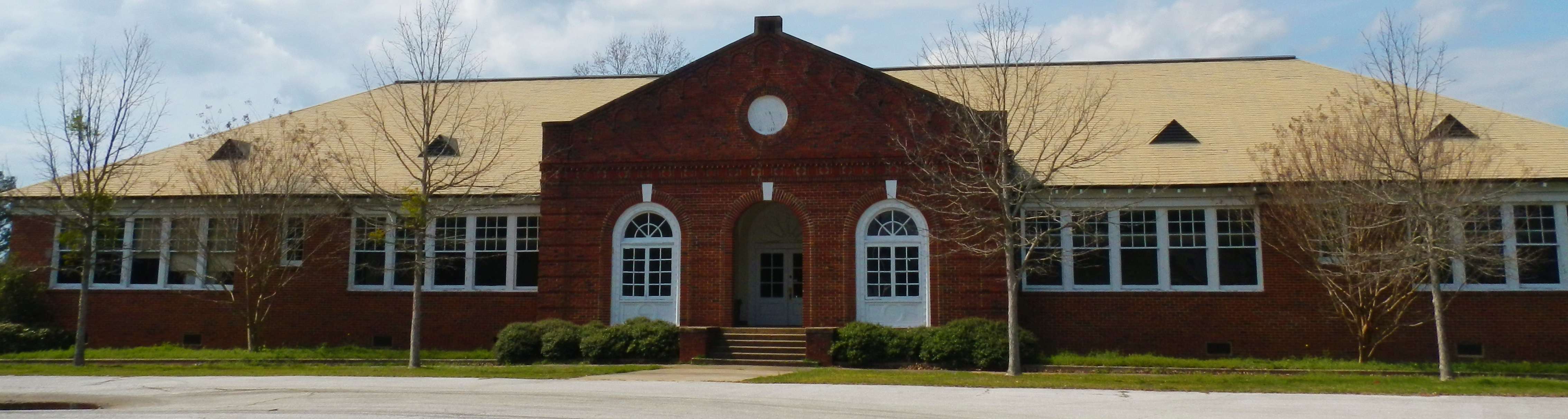 This is a photograph of the now-defunct River View School, part of the Riverview Historic District in River View, Alabama.